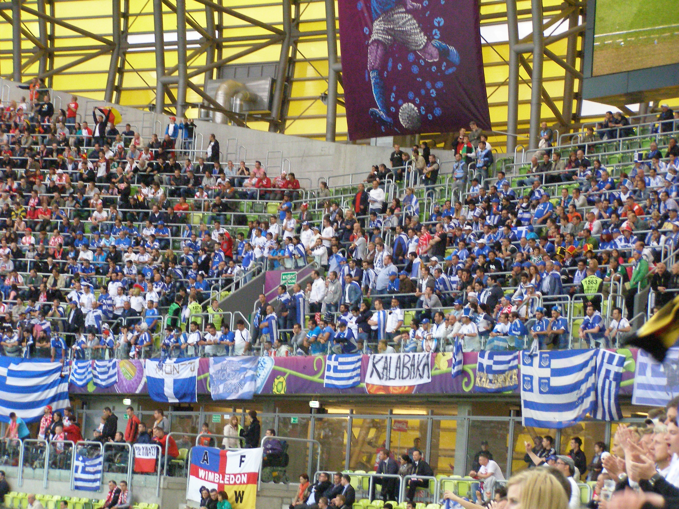 Gdańsk - PGE Arena - Euro 2012 - quarter final match Germany - Greece